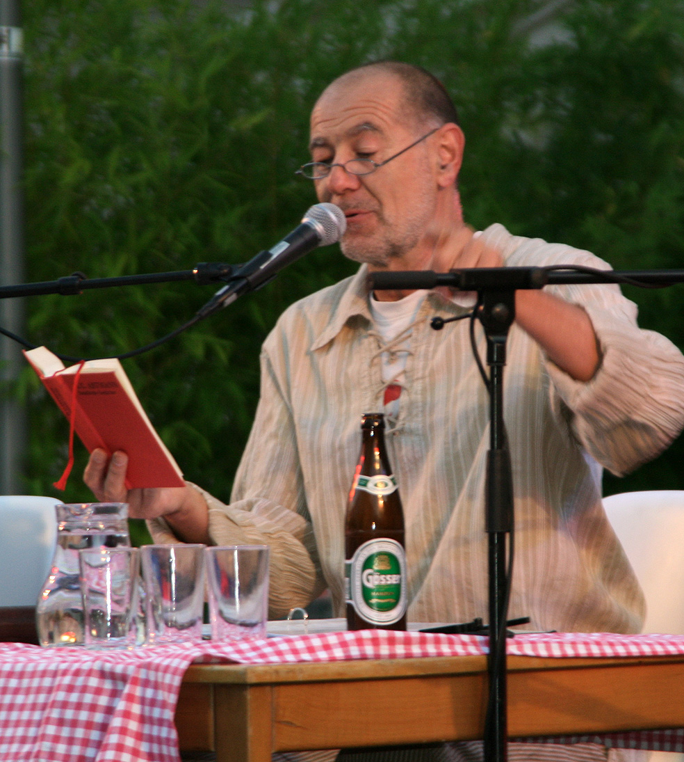 Stubnblues: Wilhelm 'Willi' Resetarits reading H. C. Artmann (Vienna 2007